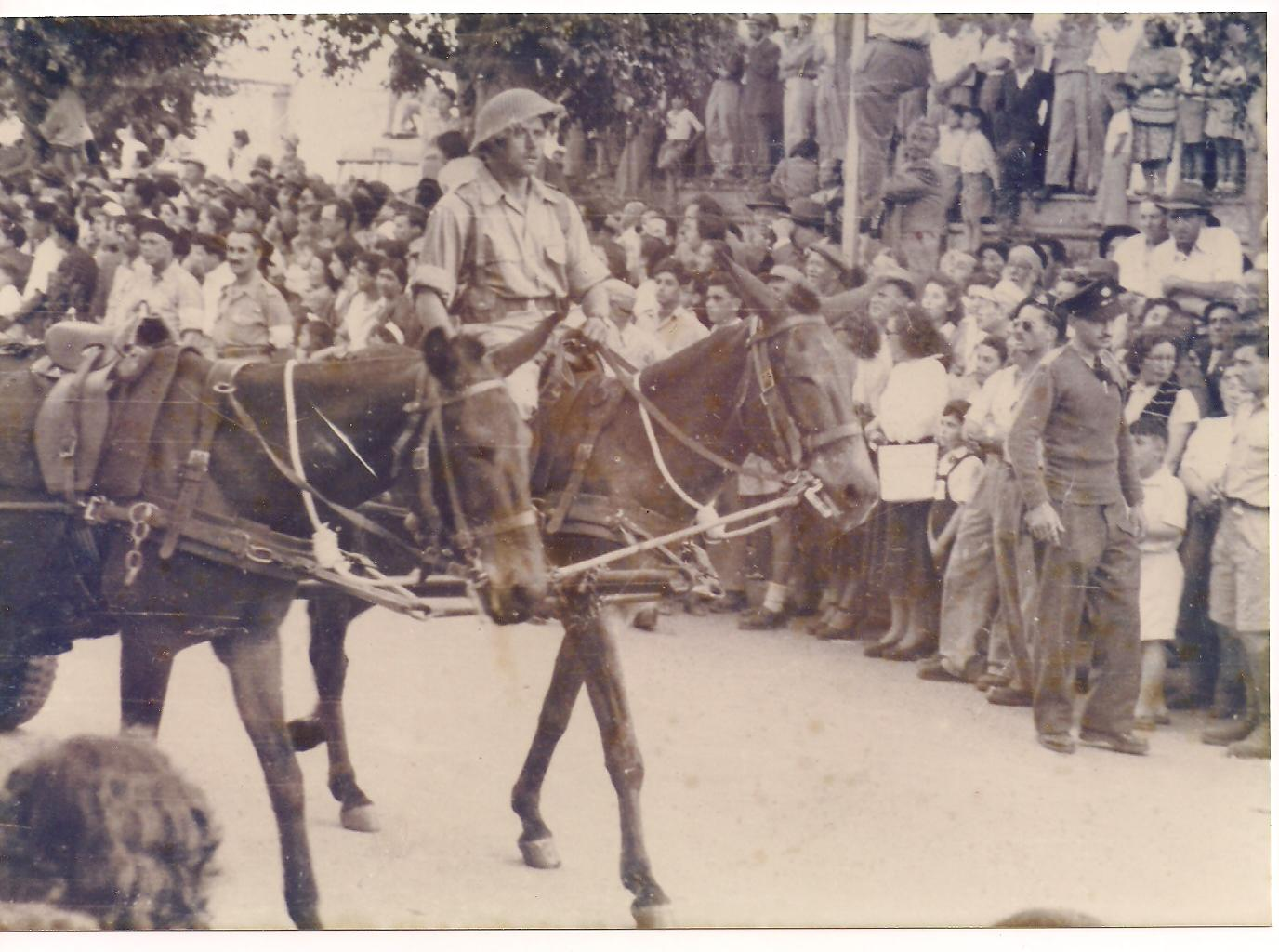 Mule Corps soldier Zeev Adler taking part in an IDF Military March around 1949